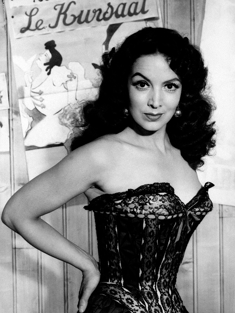 Mexican actress Maria Félix wearing a lace bodice in the film La belle Otéro. Beside her, a poster saying Le Kursaal. 1954.